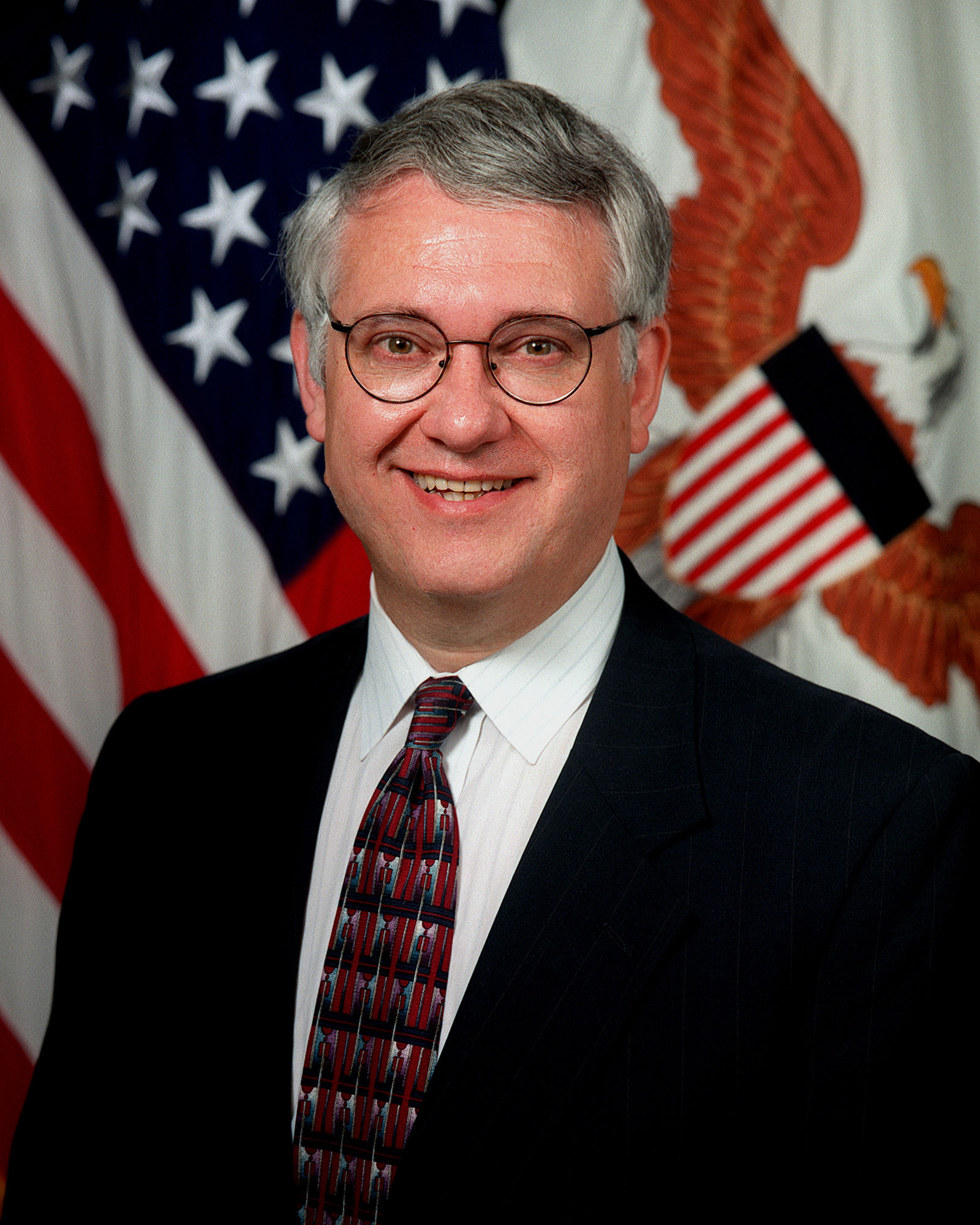 Official portrait of Deputy Secretary of Defense John J. Hamre. Dr. Hamre was sworn in as the 26th Deputy Secretary of Defense on July 29, 1997. (Released)